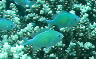 Photo2222 19:29, 24 May 2007 (UTC)